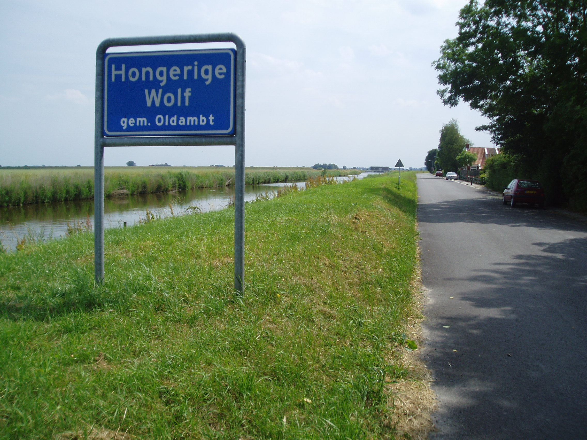 Hamlet Hongerige Wolf (Groningen, Netherlands) as seen from the bridge.